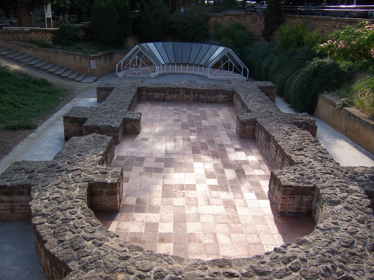 Early Christian Necropolis, Pécs, Hungary